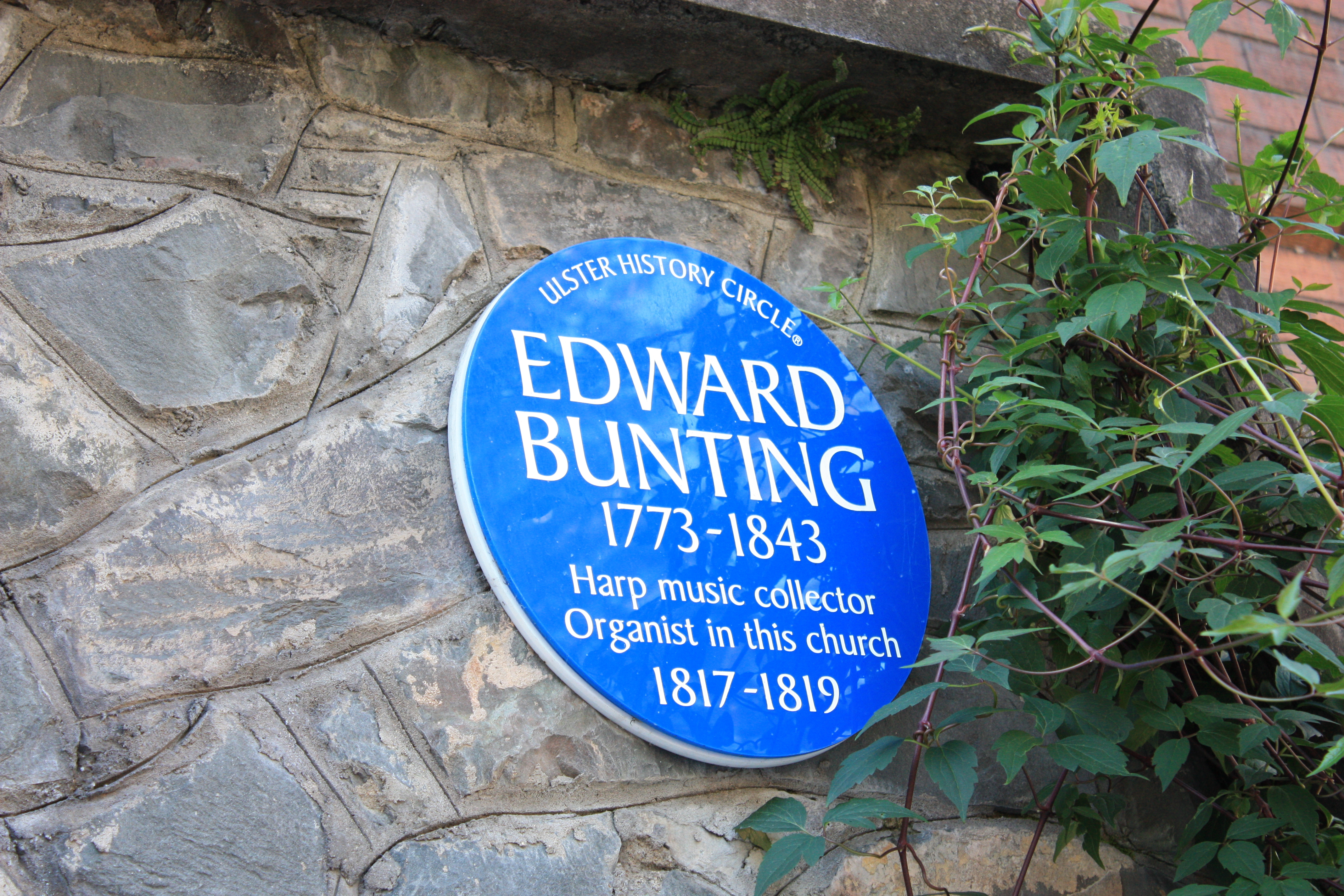 Edward Bunting blue plaque at St George's Church, High Street, Belfast, Northern Ireland, October 2009